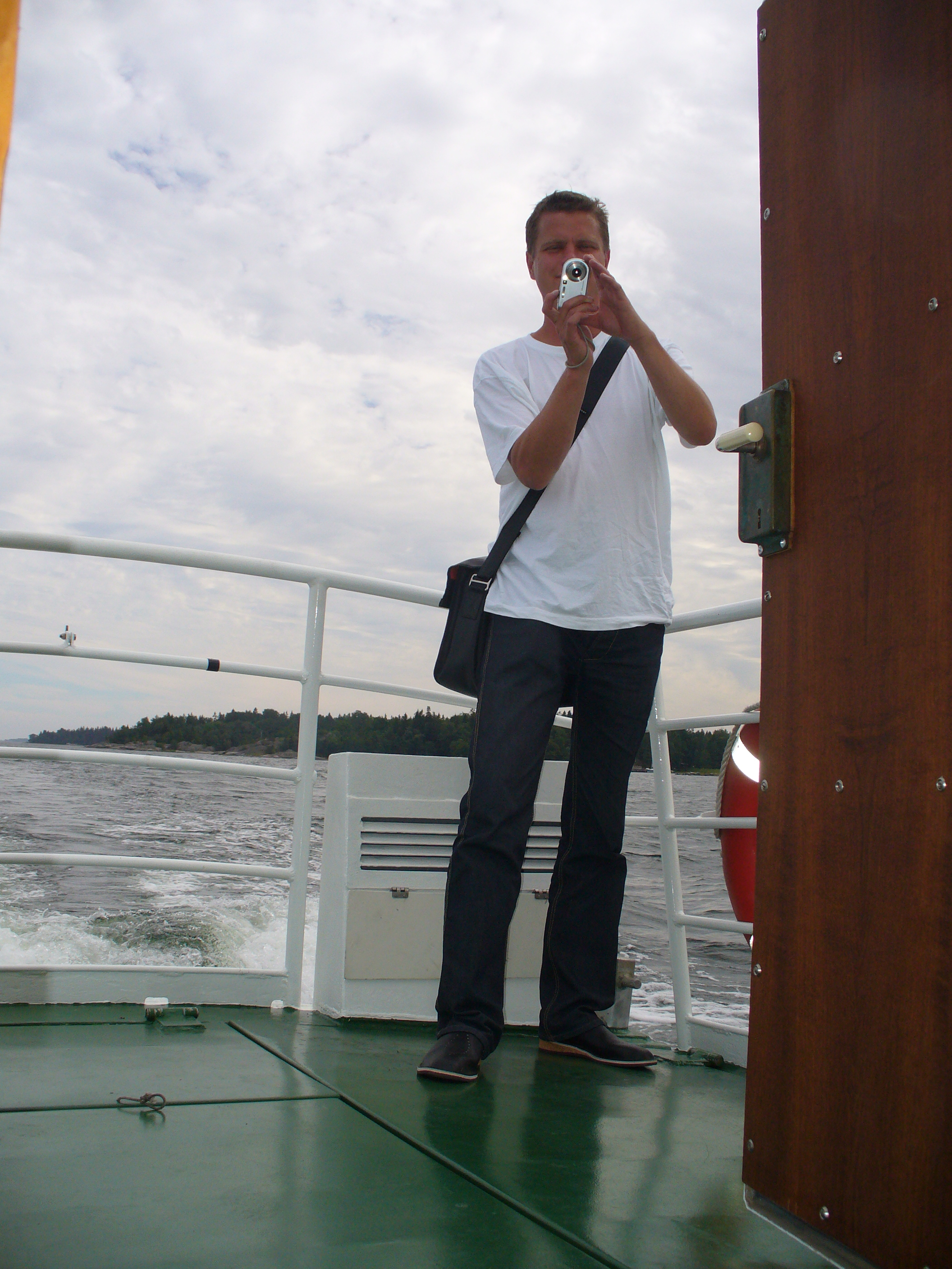 Award-winning television producer Anders Wistbacka.